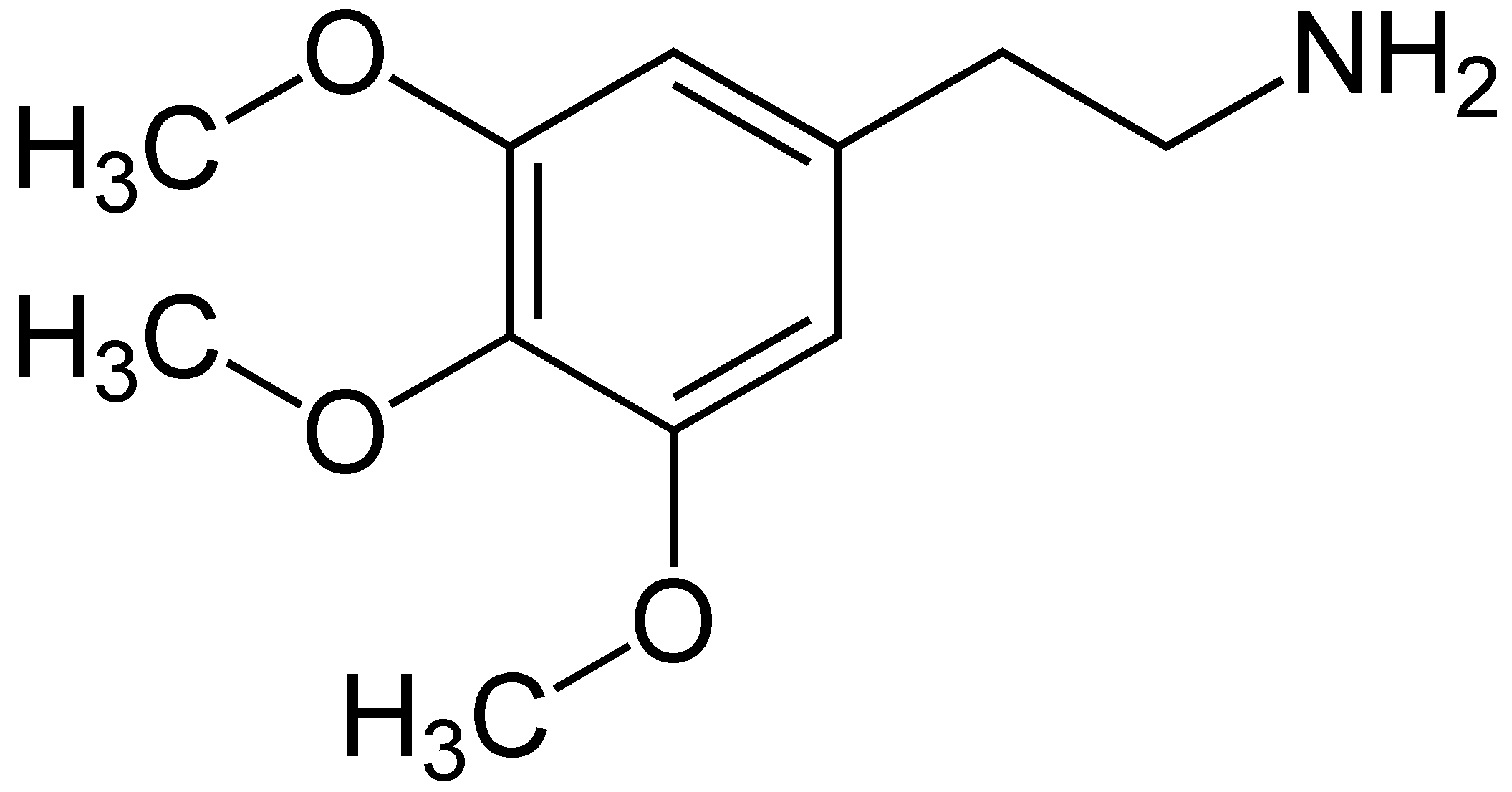 Mescaline Structural Formulae